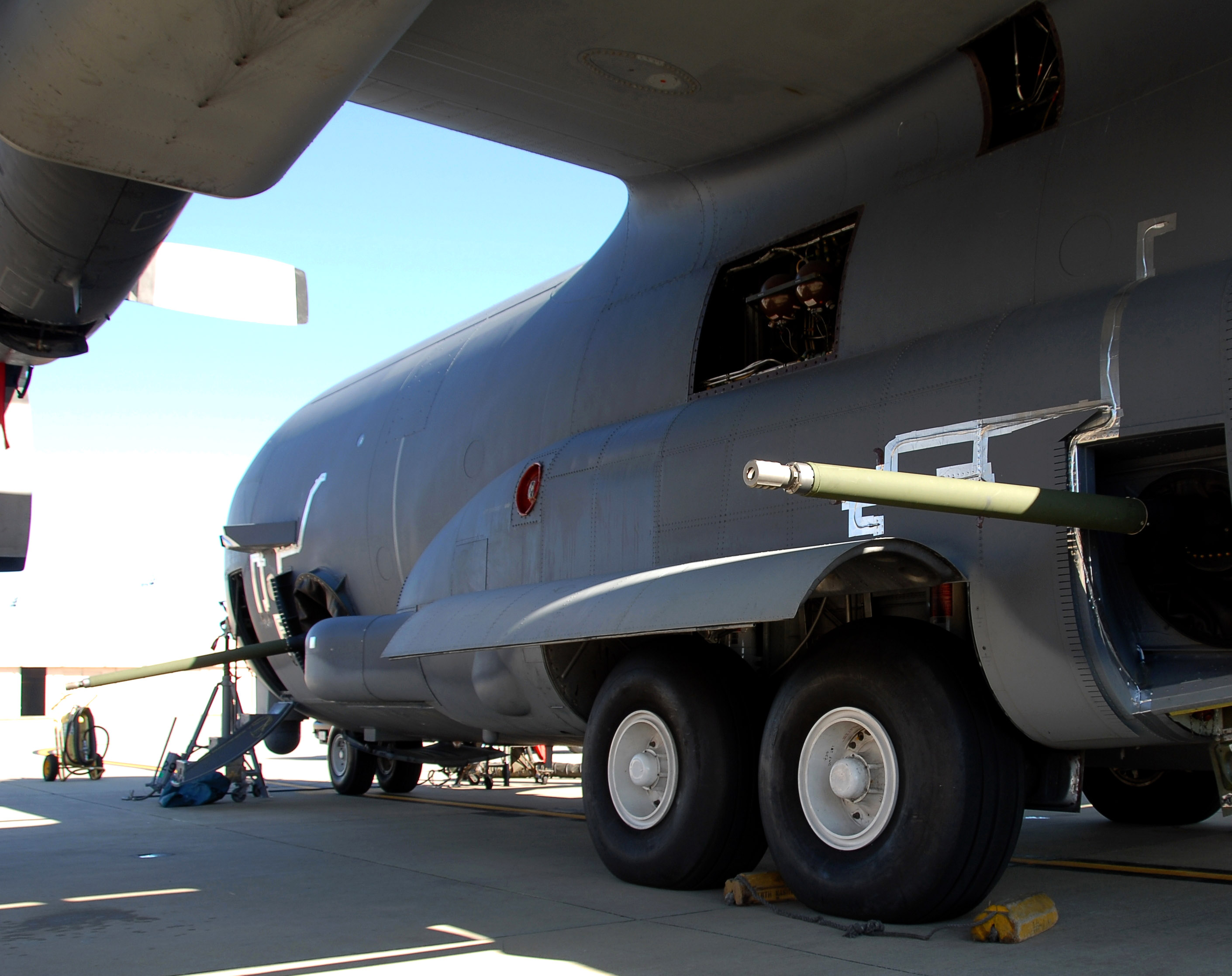 Spooky gunship armed with new cannons Bushmaster 30 mm cannons protrude from the gunports of an AC-130U Spooky gunship during tests Jan. 26 at Hurlburt Field, Fla. The 30 mm gun will eventually replace both the 40 mm cannon and 25 mm gun on U-model gunships.